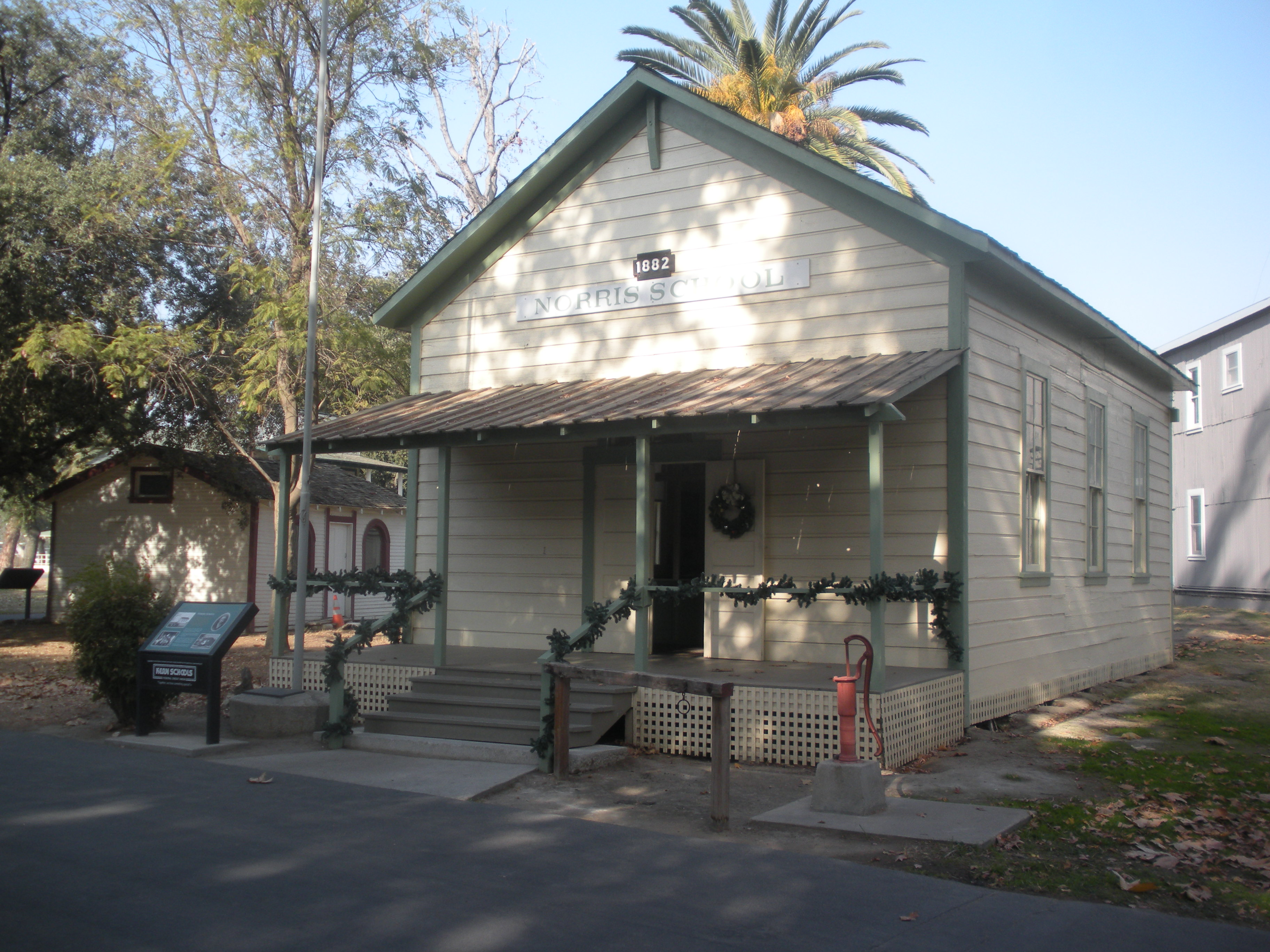 This is the original Norris School building at Kern County Museum. Originally posted to my Flickr